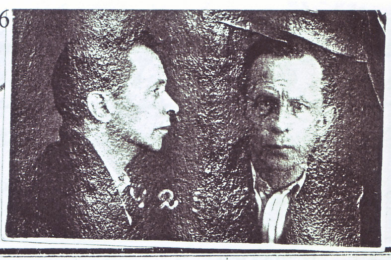 Soviet numismatist and orientalist Richard Vasmer. Photo made by NKVD after arrest in 1934.